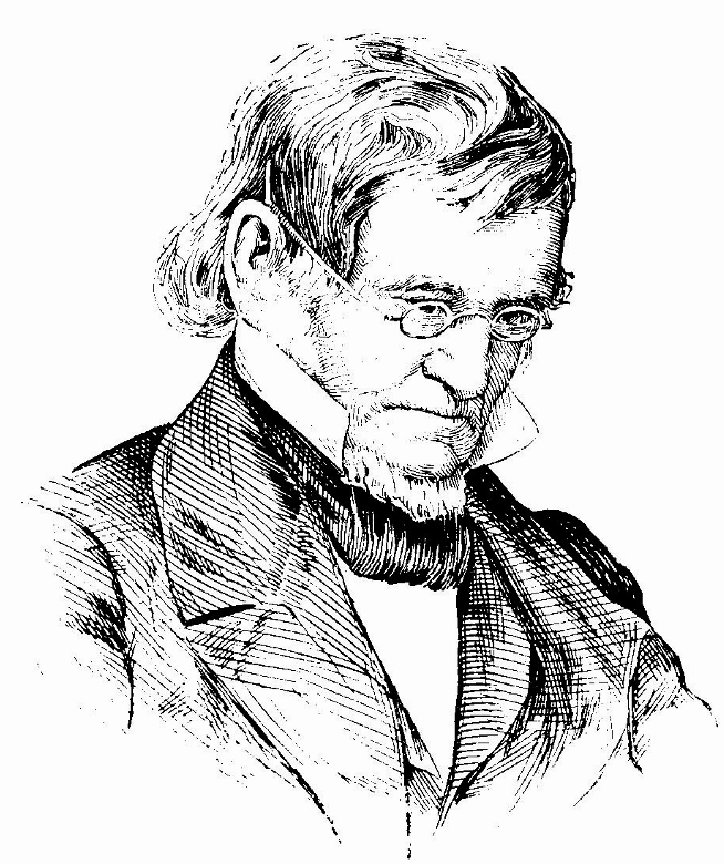 Engraving of American lexicographer Joseph Emerson Worcester.